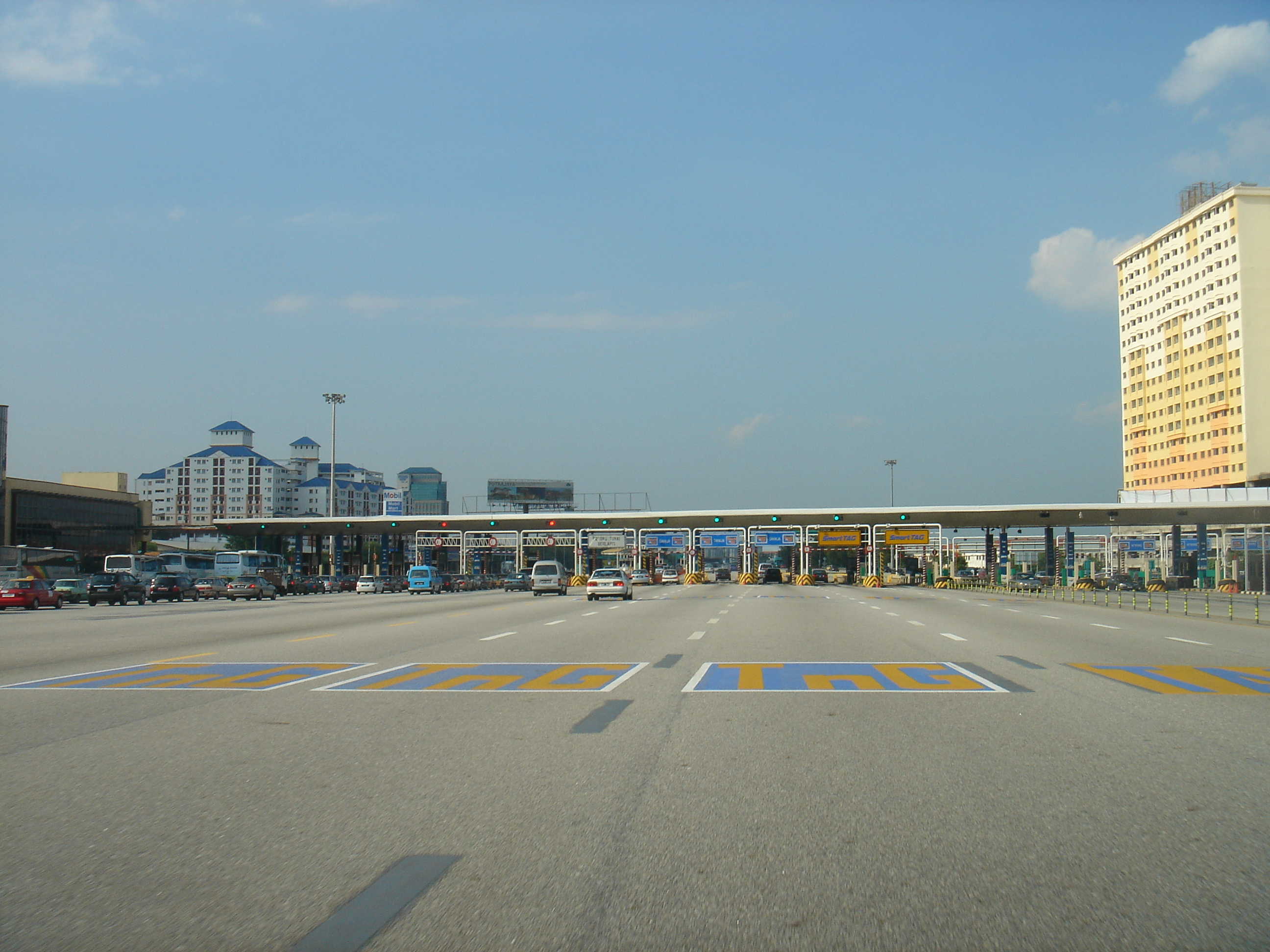 Toll Booths at Sungai Besi, Kuala Lumpur, at end of South section of North-South Expressway, Malaysia.